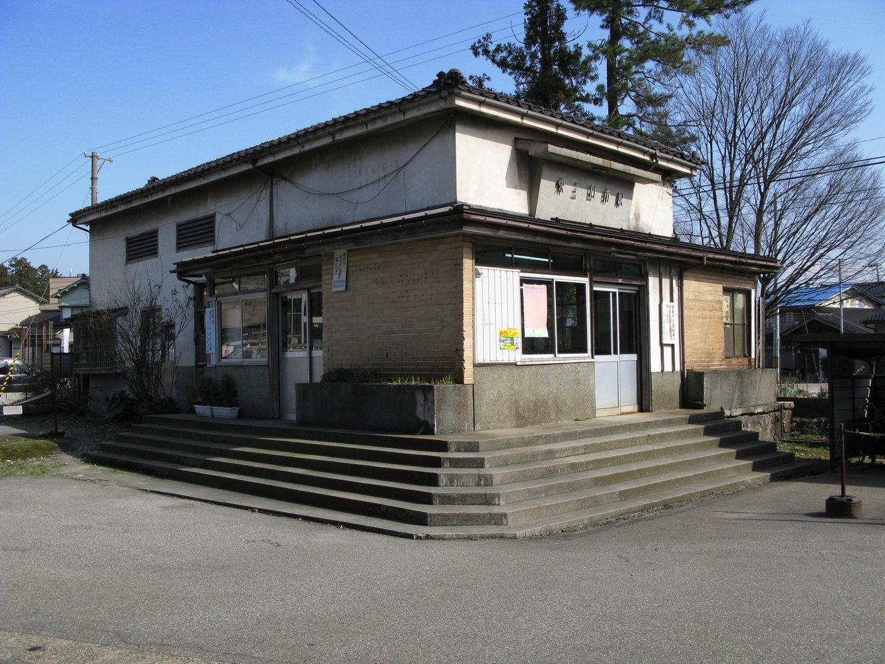 Toyama Chiho Railway Higashi-Mikkaichi Station